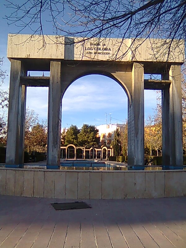 Park of Los Coloma in Almansa (Spain).